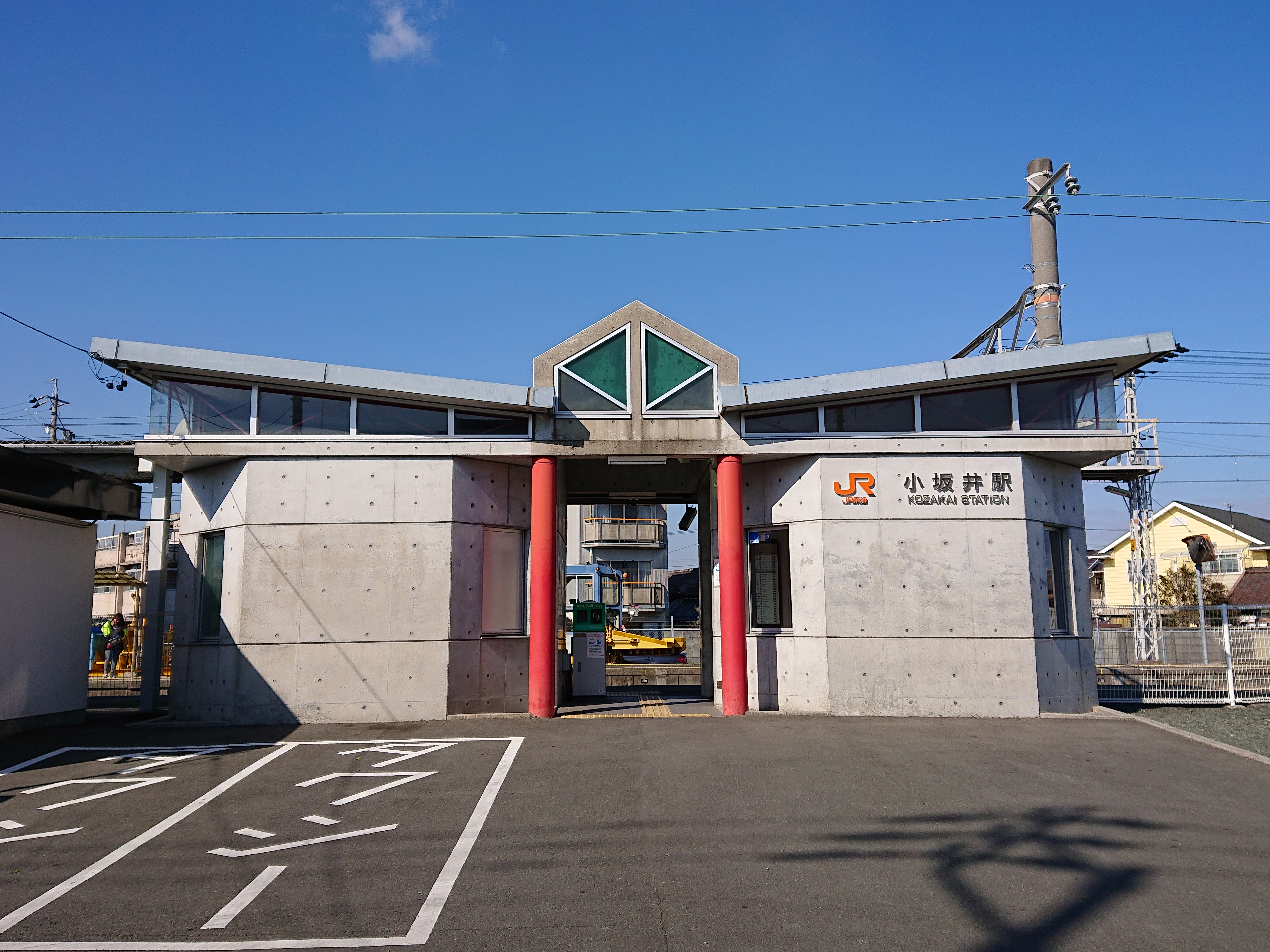 Kozakai Station, at 72 Kurayashiki, Kozakai-cho, Toyokawa, Aichi, Japan